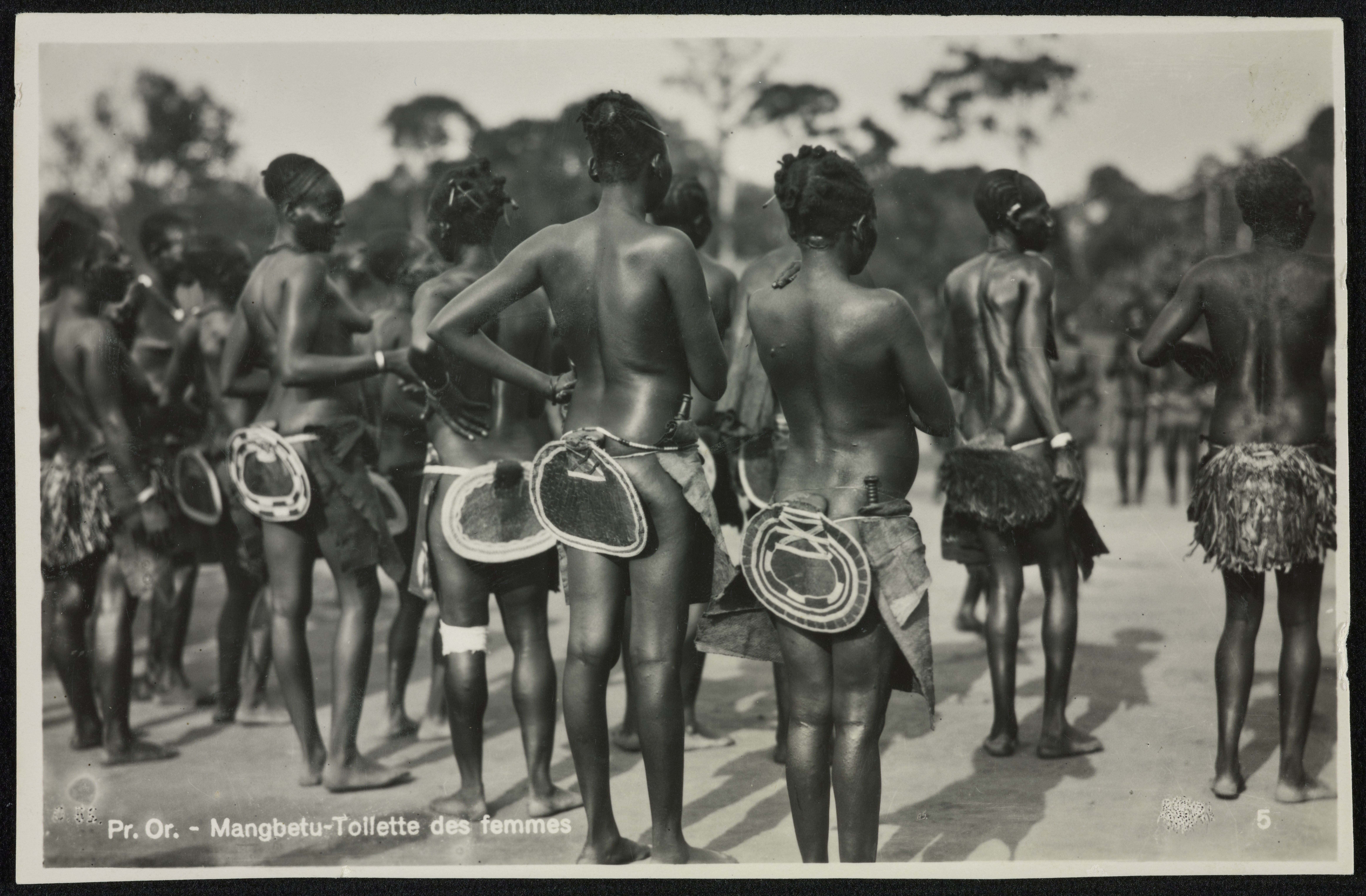 Mangbetu, toilette des femmes, de Casimir Zagourski